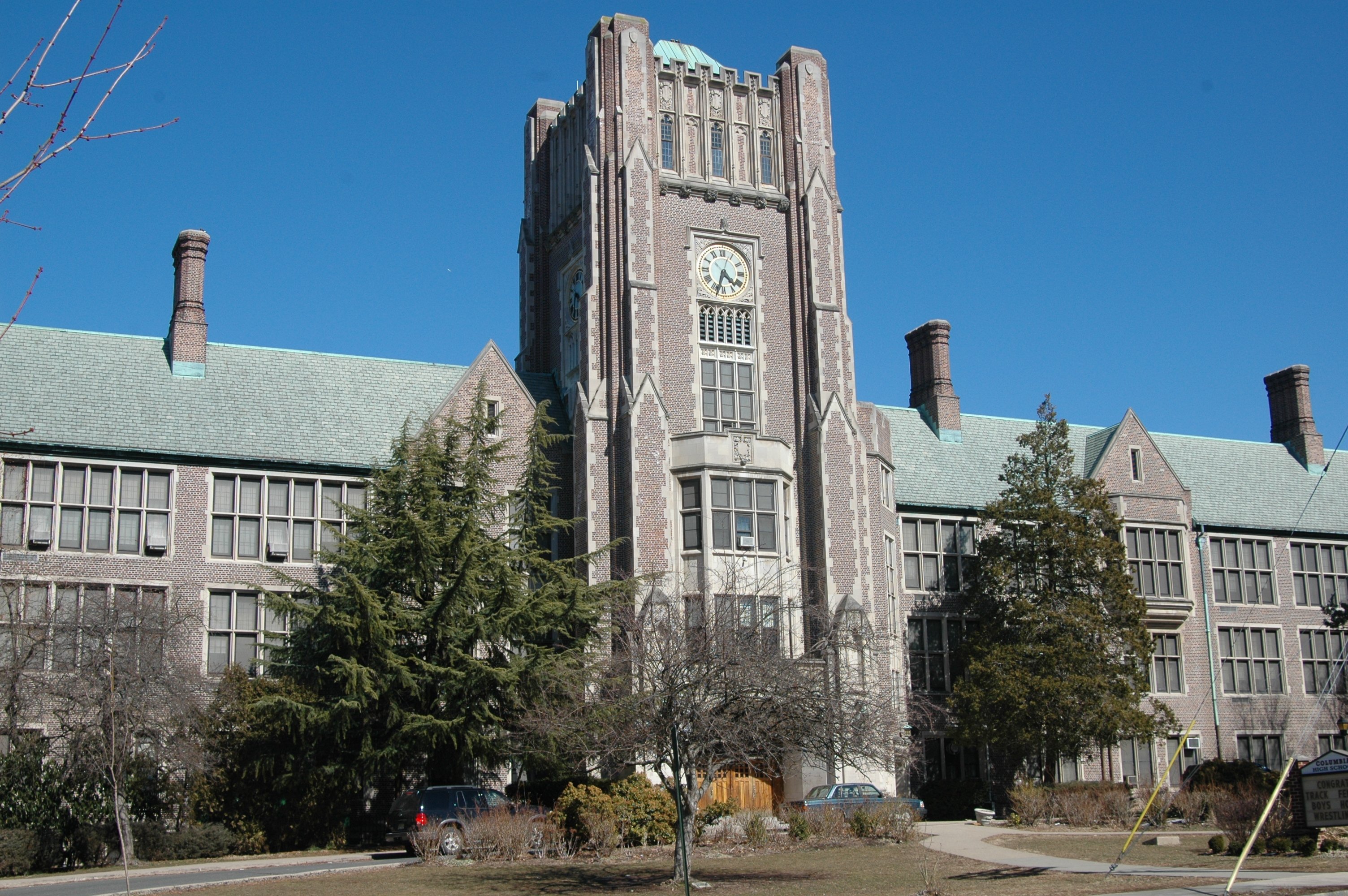 Columbia High School, a Guilbert and Betelle design in Maplewood NJ